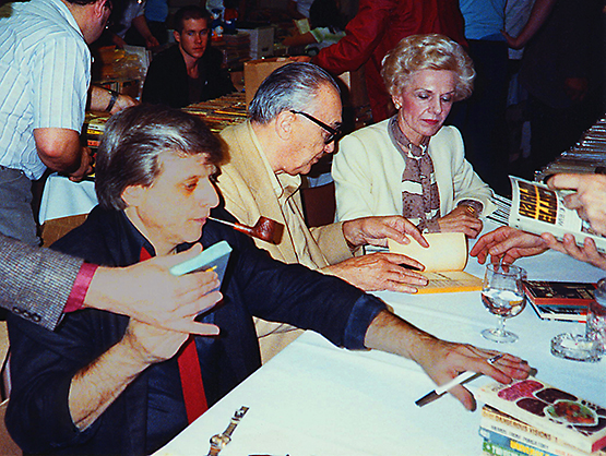 Harlan Ellison (left), A. E. van Vogt and Lydia van Vogt in this undated photo from sometime in the mid- (or early) 1980’s. I probably took this photo in Van Nuys, California.